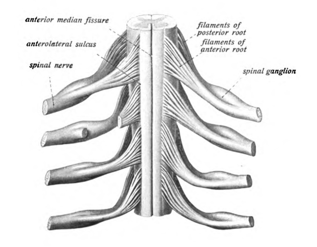 An anatomical illustration from the 1908 edition of Sobotta's Anatomy Atlas